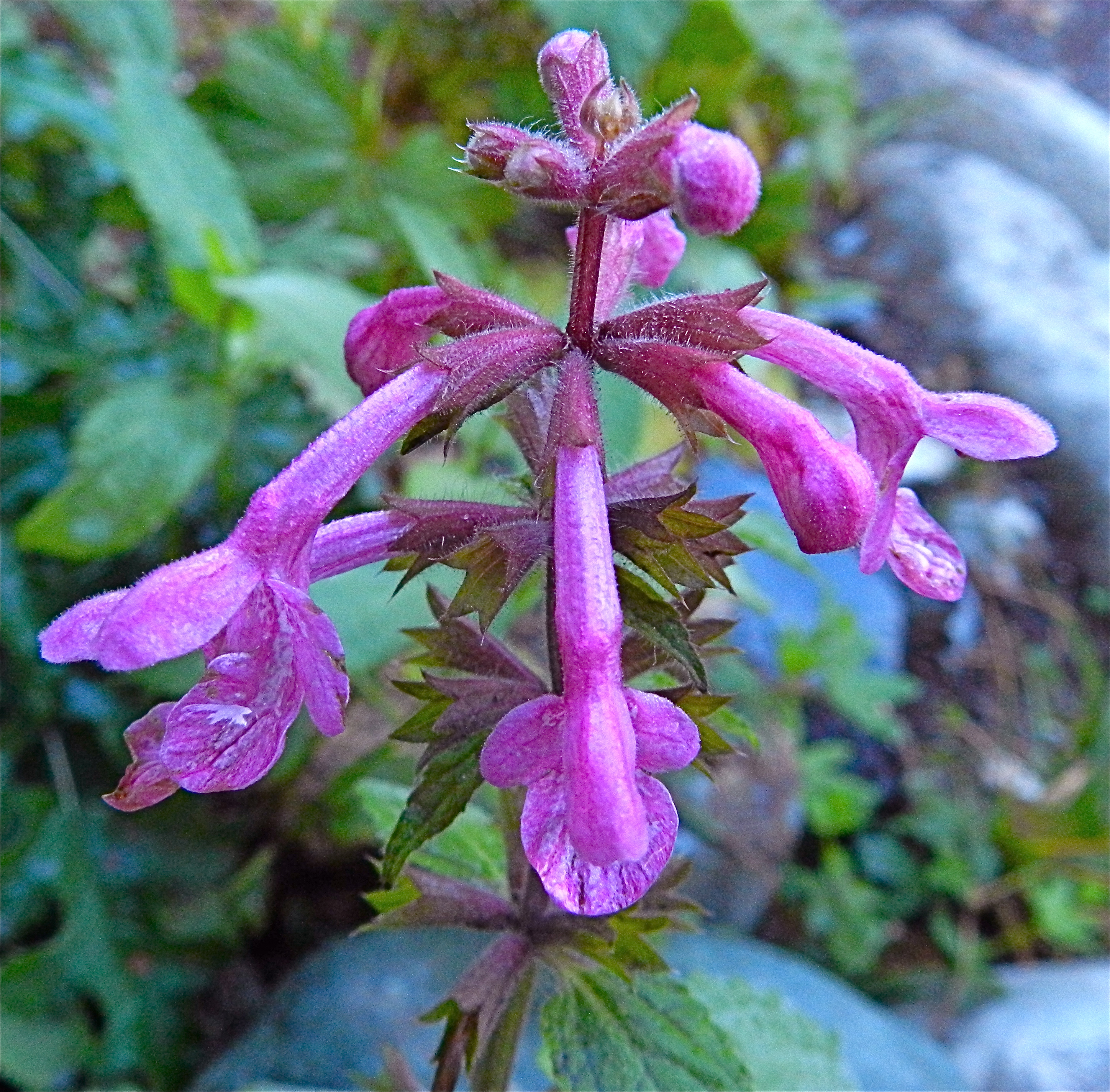 Stachys chamisonis var. cooleyae.